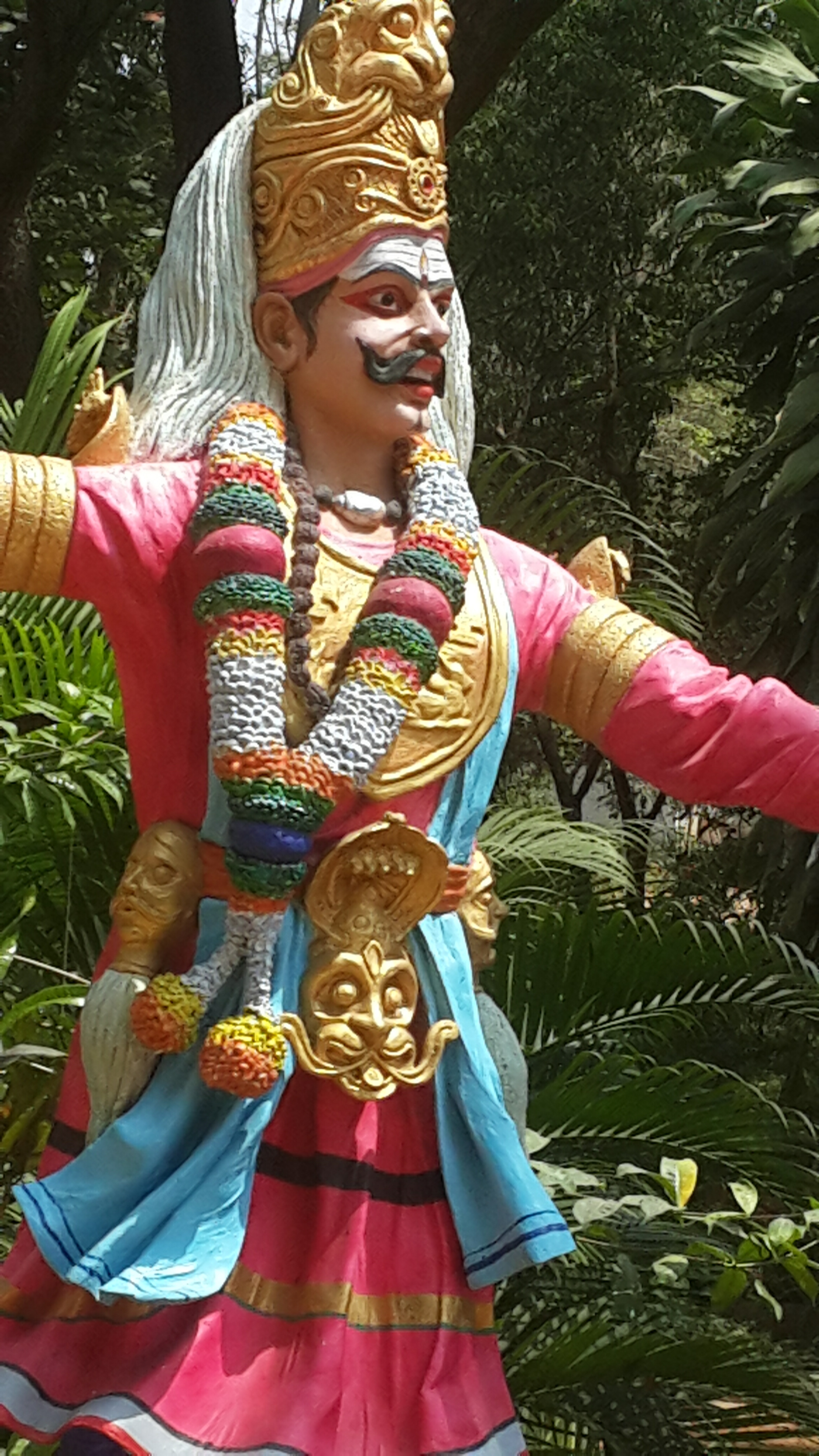 Yakshagana artist's mannequin on display in the Janapada Loka (Folk art museum)